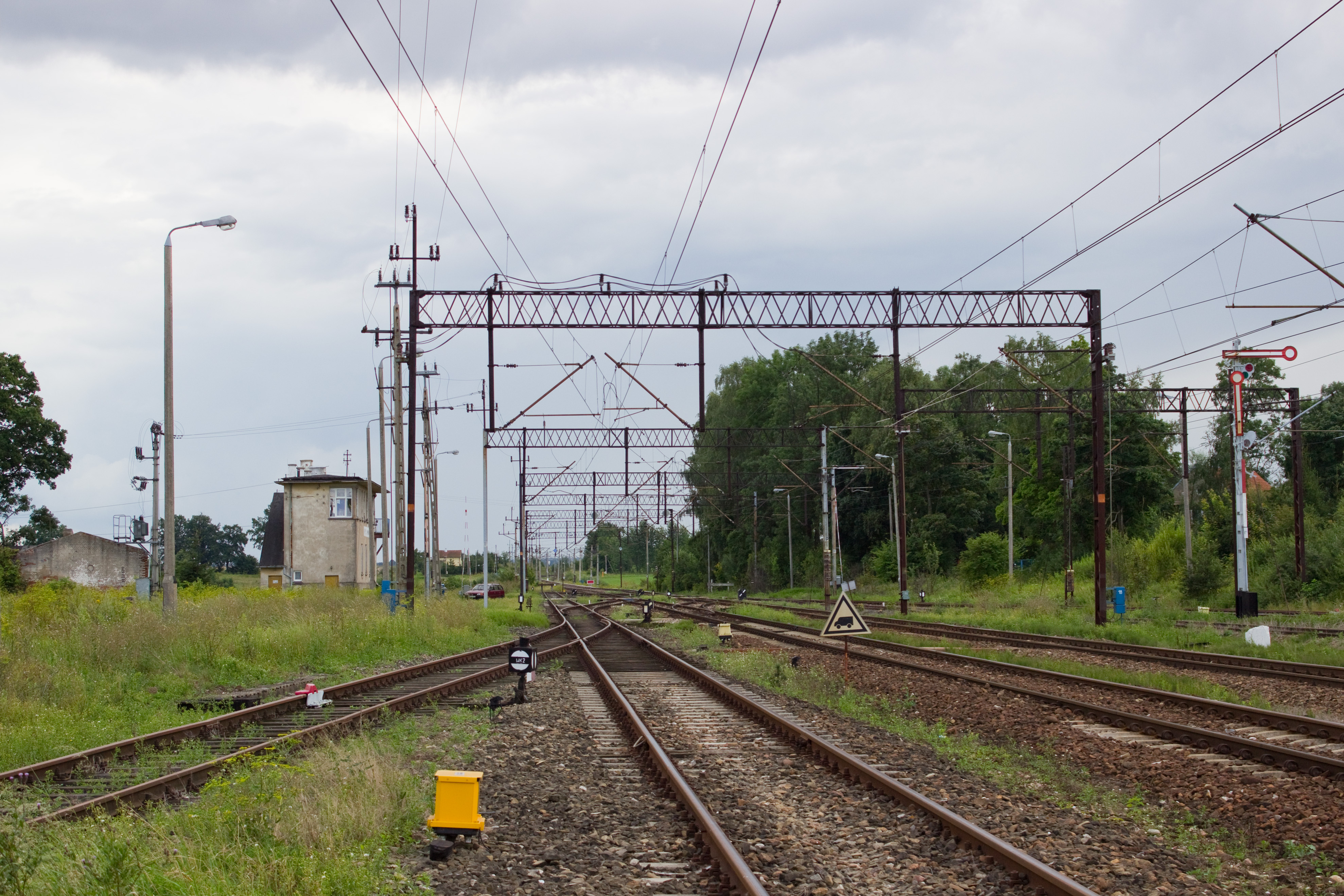 Train station, Sątopy, gmina Bisztynek, powiat bartoszycki, Warmian-Masurian Voivodeship